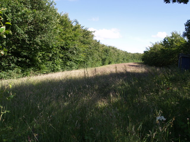 Former railway track This tempting grassy way, alas not accessible for public use, is the line of the vanished Holsworthy-Halwill Junction railway, a few yards from the site of its bridge across the A3079 south of Dunsland Cross.